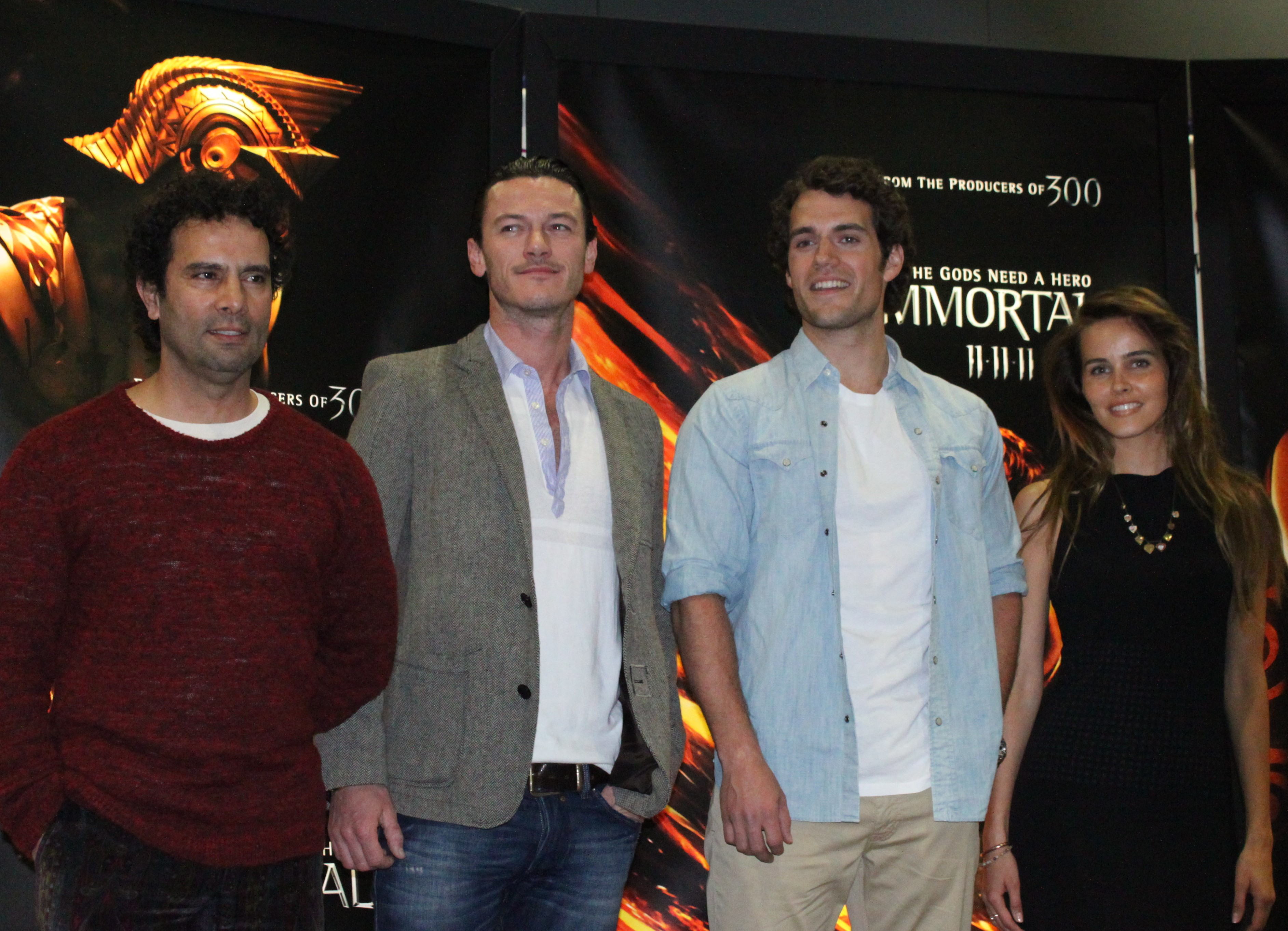 Tarsem Singh, Luke Evans, Henry Cavill and Isabel Lucas at WonderCon 2011